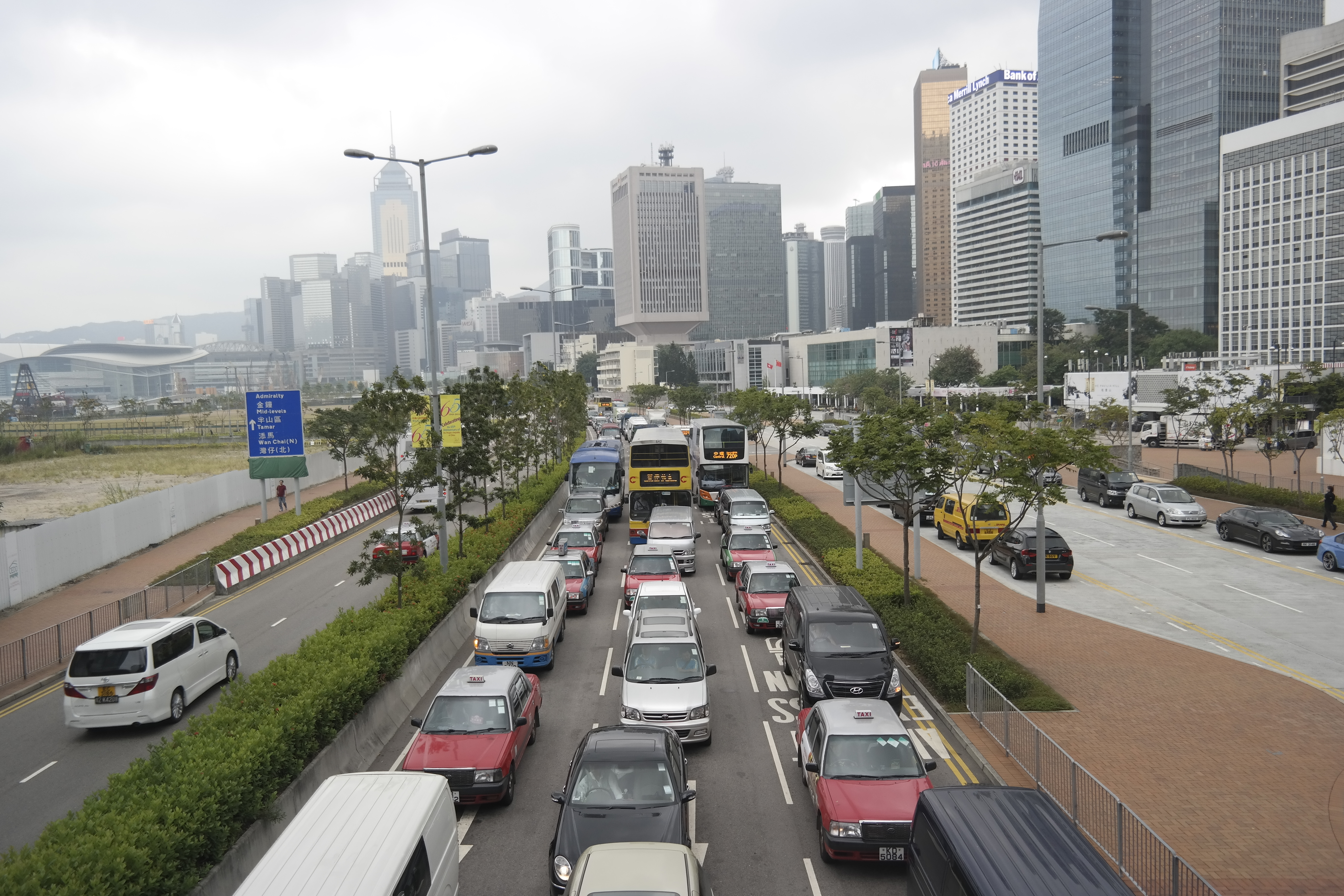 Traffic jam on Lung Wo Road on 2014-10-24